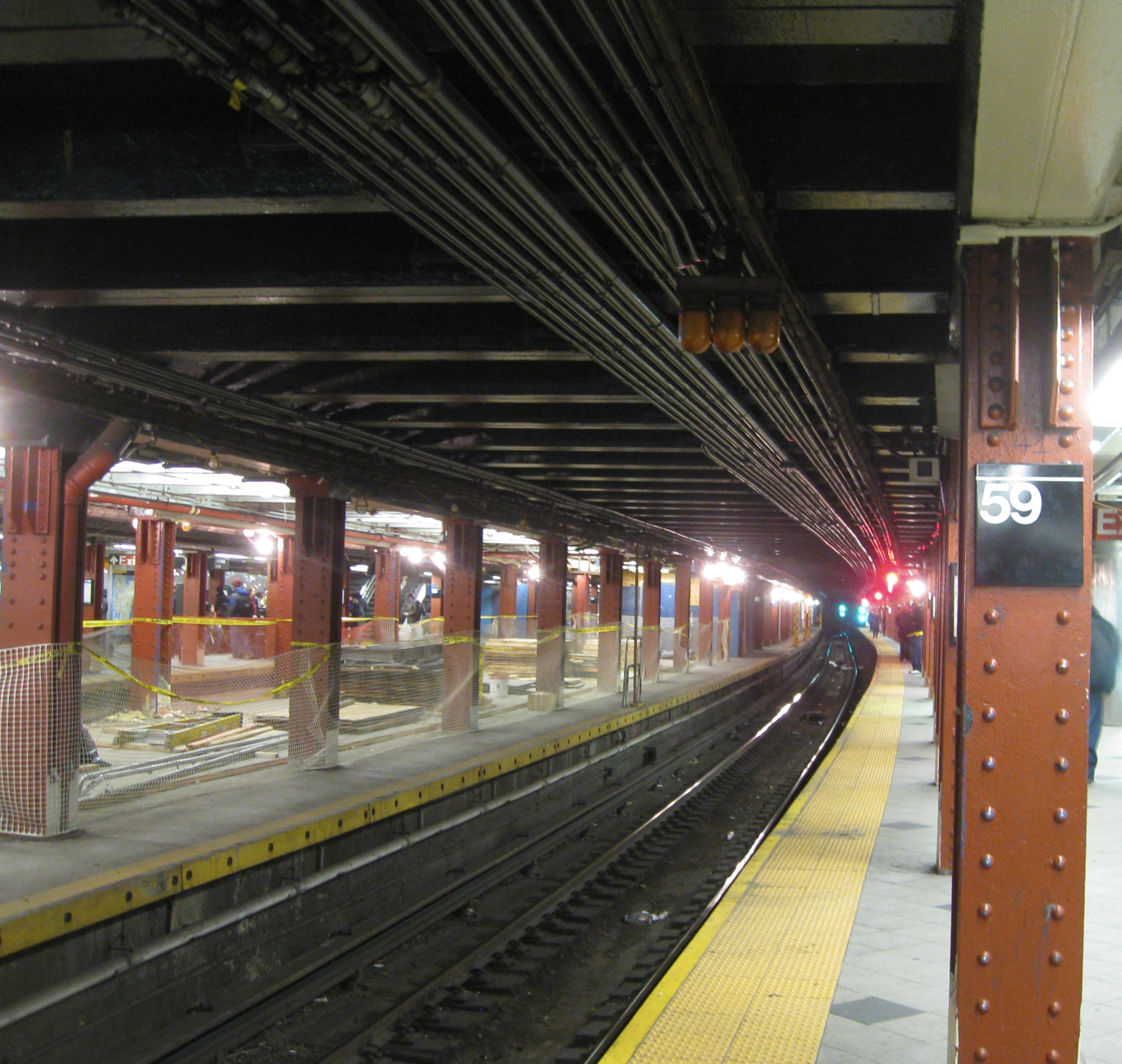 Waiting for the train at 89th street